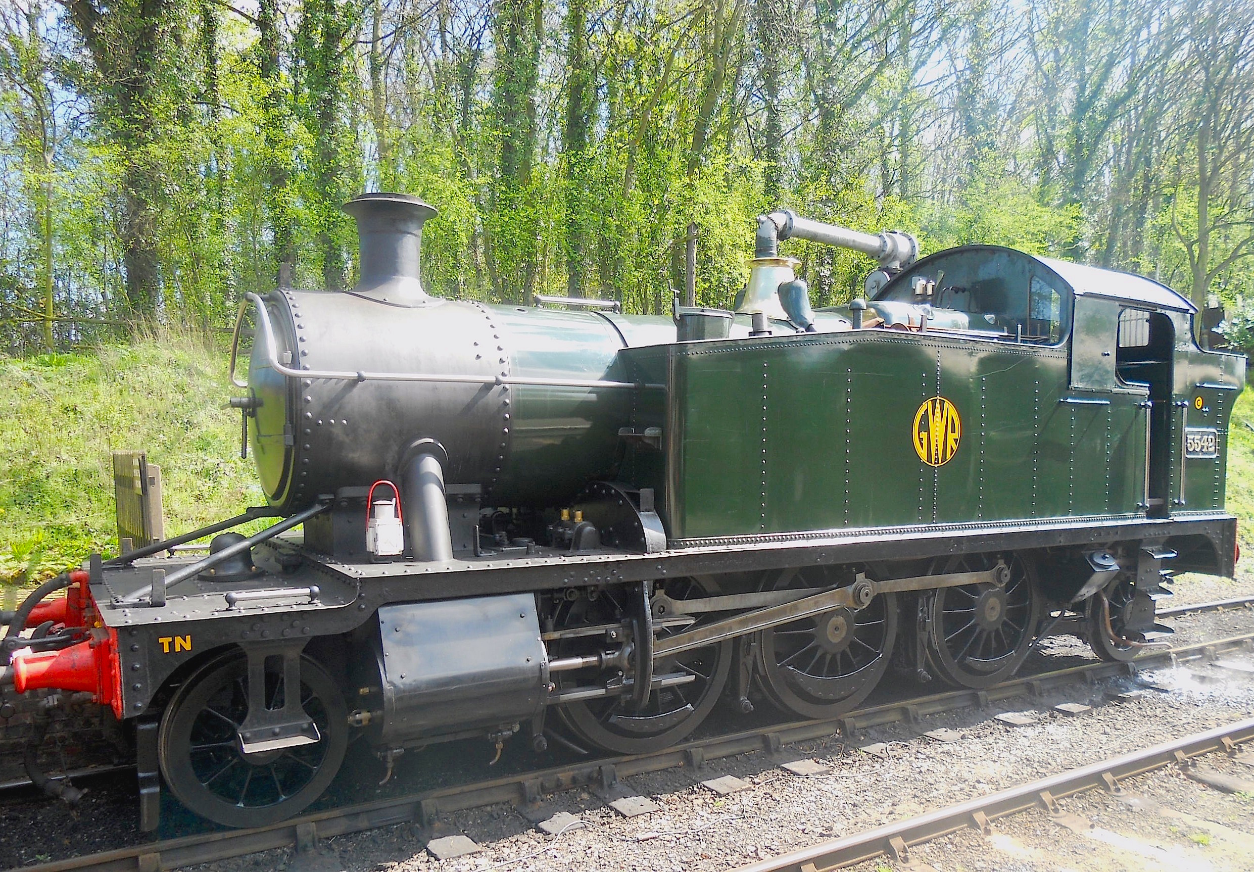 GWR 2-6-2T Small Prairie Tank No. 5542 at Shackerstone Station on the Battlefield Line Railway